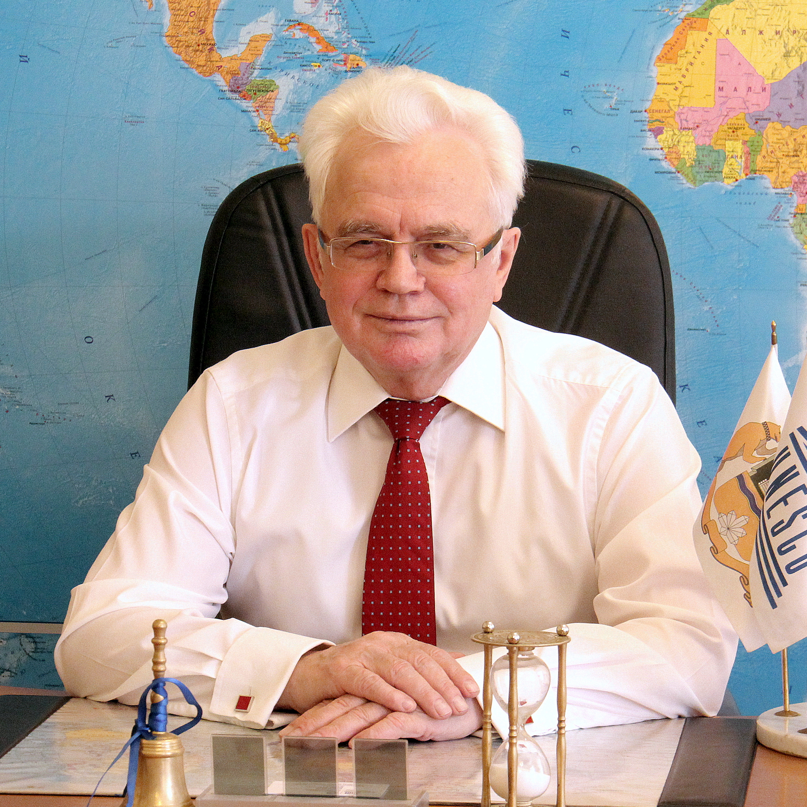 Photo of Yuri Borisikhin, made three days before his death.